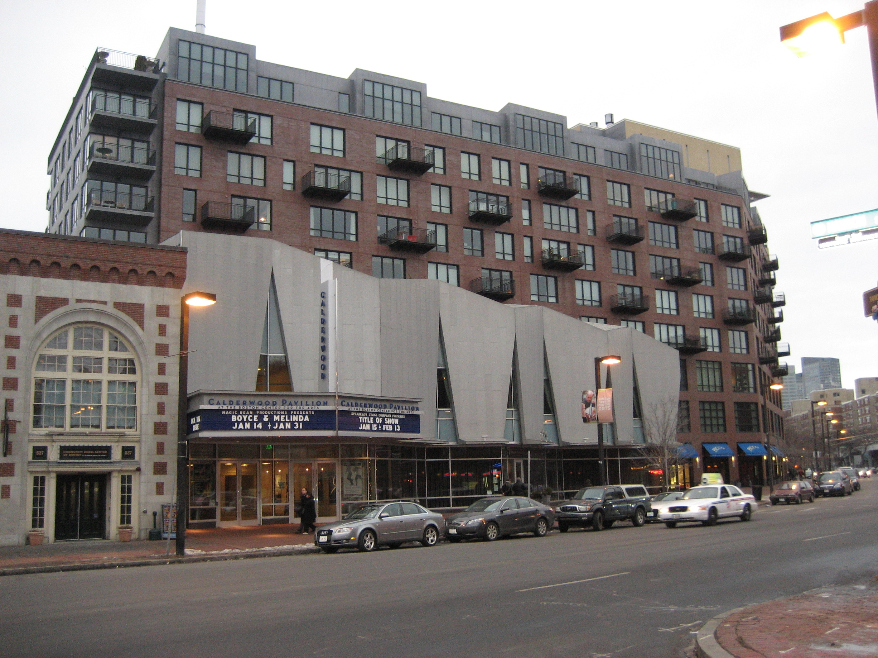 Calderwood Pavilion on Tremont Street in Boston's South End.